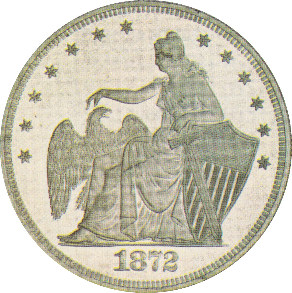 1872 "Amazonian" dollar struck in aluminum as part of the extensive series of patterns which led up to the Trade dollar. Judd 1307. The design was rejected as too militaristic: Liberty does not bear the word "Liberty", nor does she carry an olive branch.